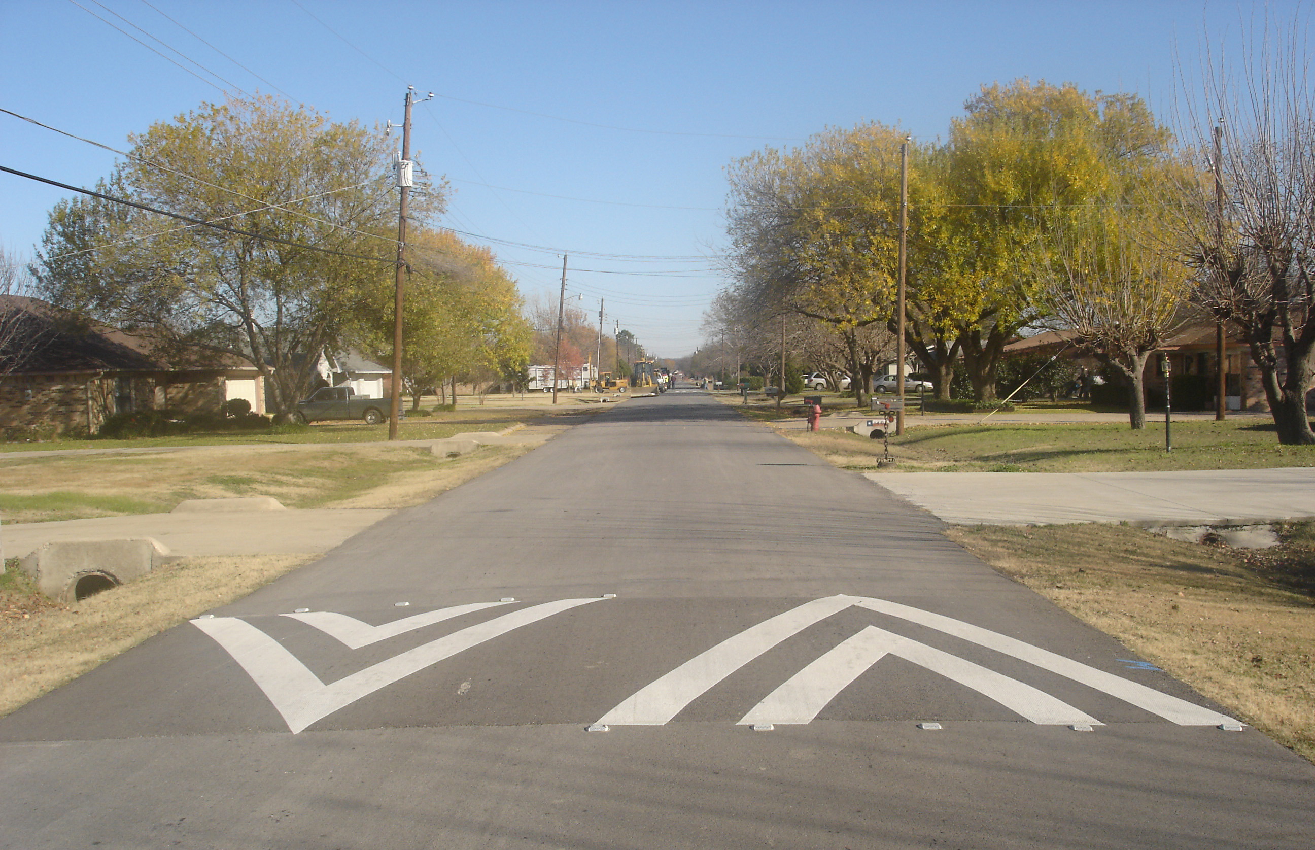 self-created